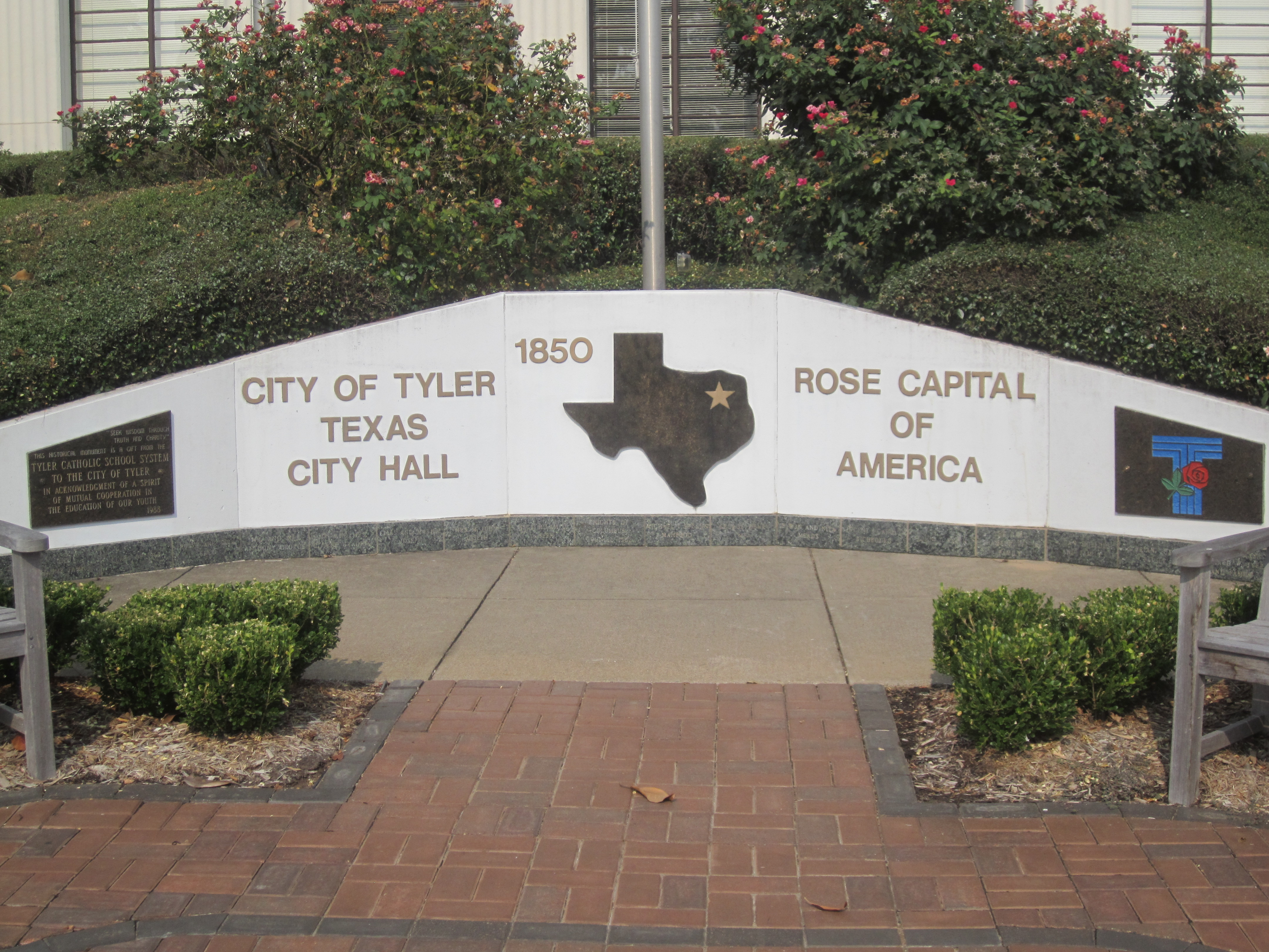 I took photo with Canon camera in Tyler, TX.